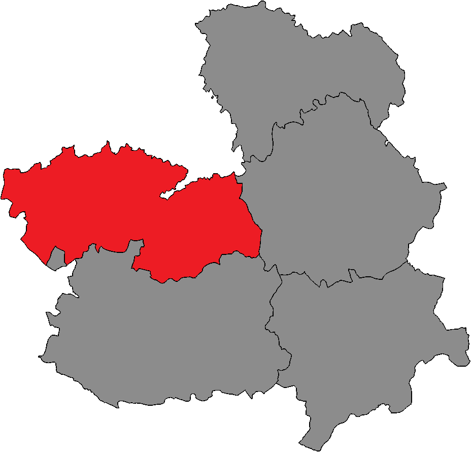 Cortes of Castilla-La Mancha district of Toledo.